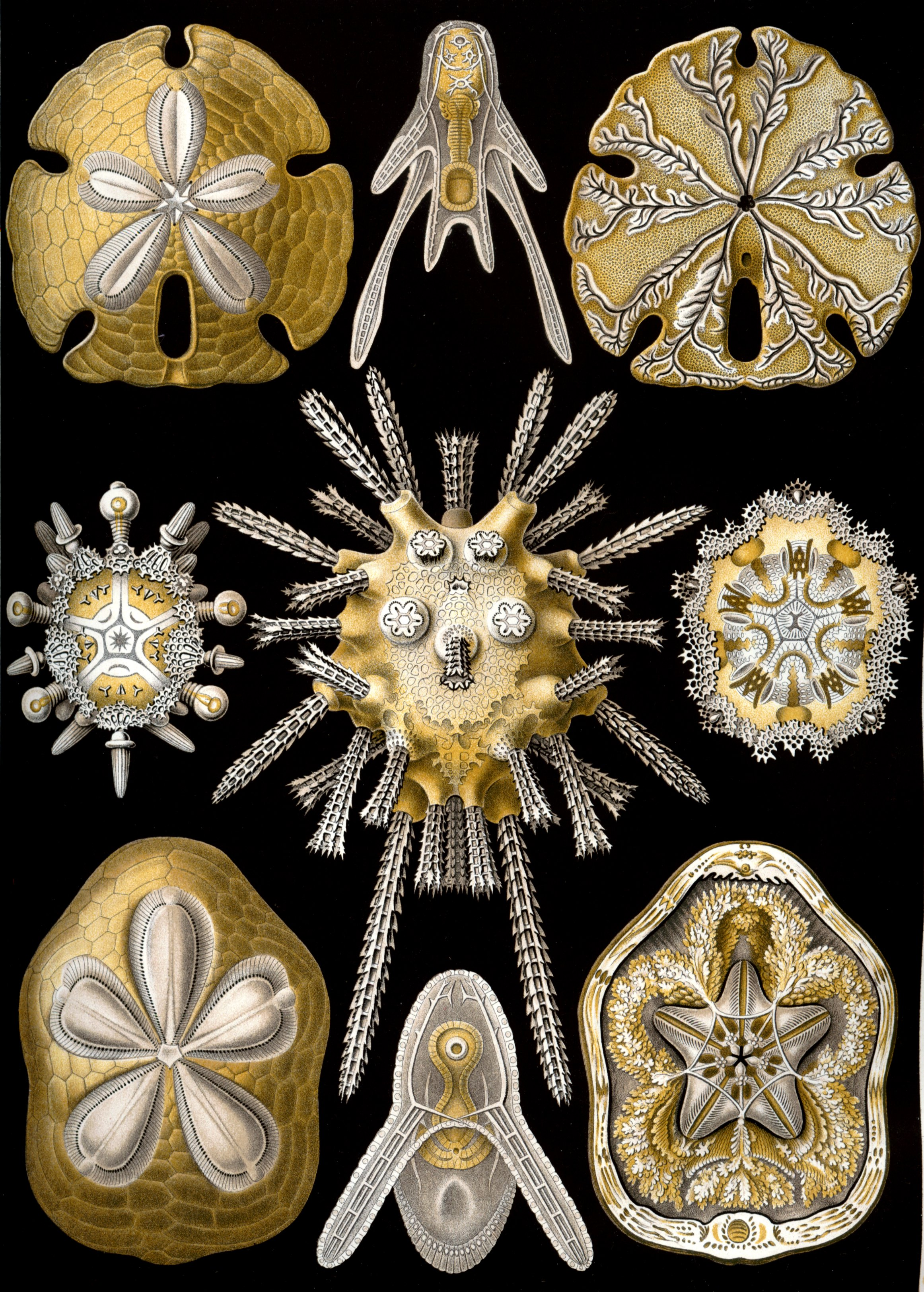 See here for index to numbers. Clypeaster rosaceus (Lamarck) = Clypeaster rosaceus (Linnaeus, 1758), shell without spines from above Clypeaster rosaceus (Lamarck) = Clypeaster rosaceus (Linnaeus, 1758), internal organs from above Encope emarginata (Leske) = Encope emarginata (Leske 1778), shell without spines from above Encope emarginata (Leske) = Encope emarginata (Leske 1778), shell without spines from below Echinocyamus pusillus (Müller) = Echinocyamus pusillus (O.F.Müller, 1776), 48-hour-old plutellus larva from below Echinocyamus pusillus (Müller) = Echinocyamus pusillus (O.F.Müller, 1776), 10-day-old plutellus larva from below Echinocyamus pusillus (Müller) = Echinocyamus pusillus (O.F. Müller, 1776), 45-day-old juvenile from below Echinocyamus pusillus (Müller) = Echinocyamus pusillus (O.F. Müller, 1776), 50-day-old juvenile from below Echinocyamus pusillus (Müller) = Echinocyamus pusillus (O.F. Müller, 1776), 60-day-old juvenile from above